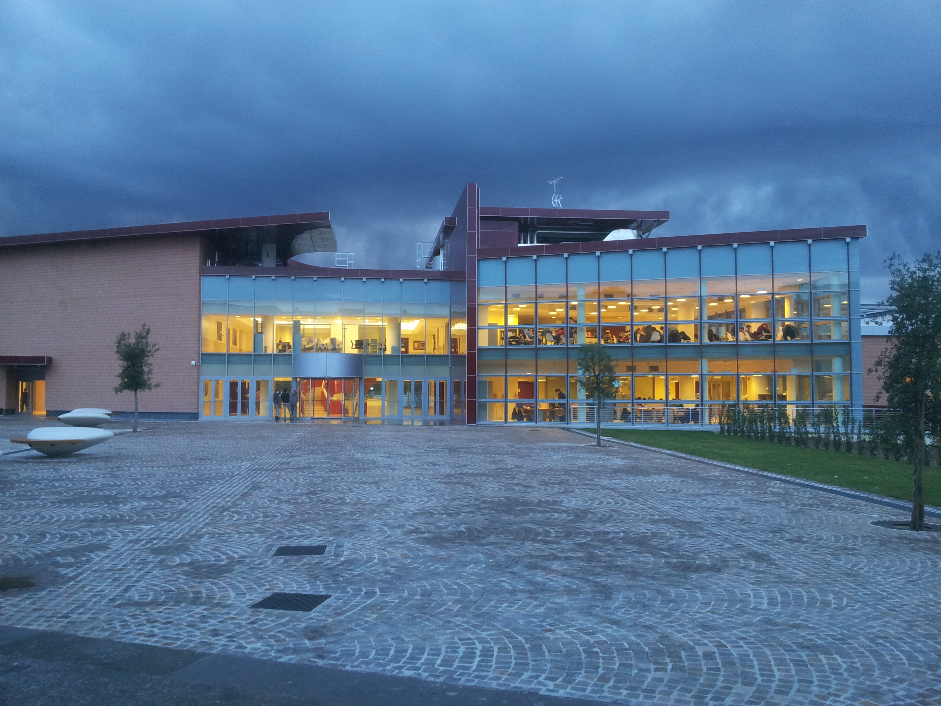 Teaching building "Trapezio", Campus Bio-Medico University, Rome